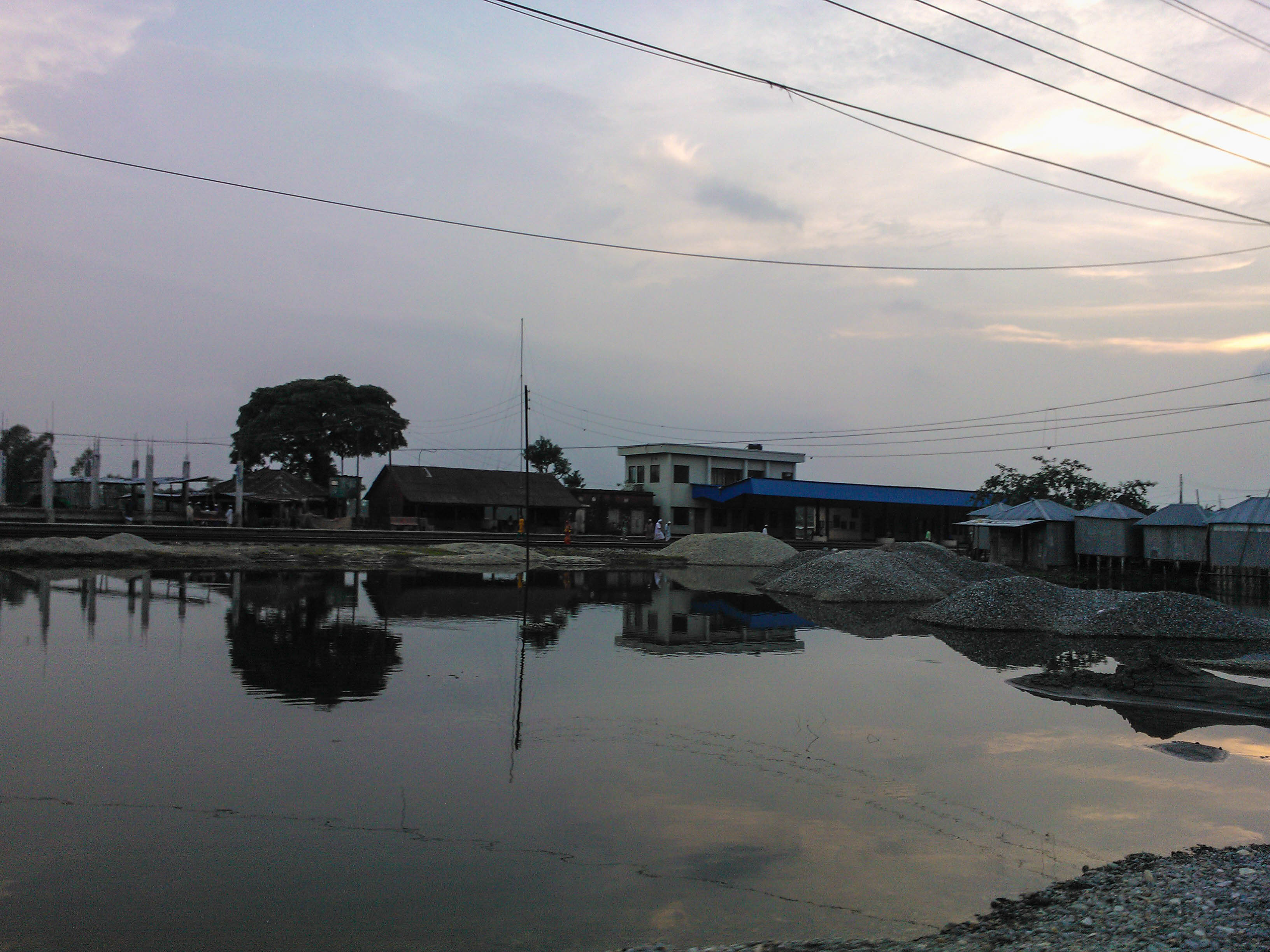 Burimari railway station, Patgram, Lalmonirhat, Bangladesh.